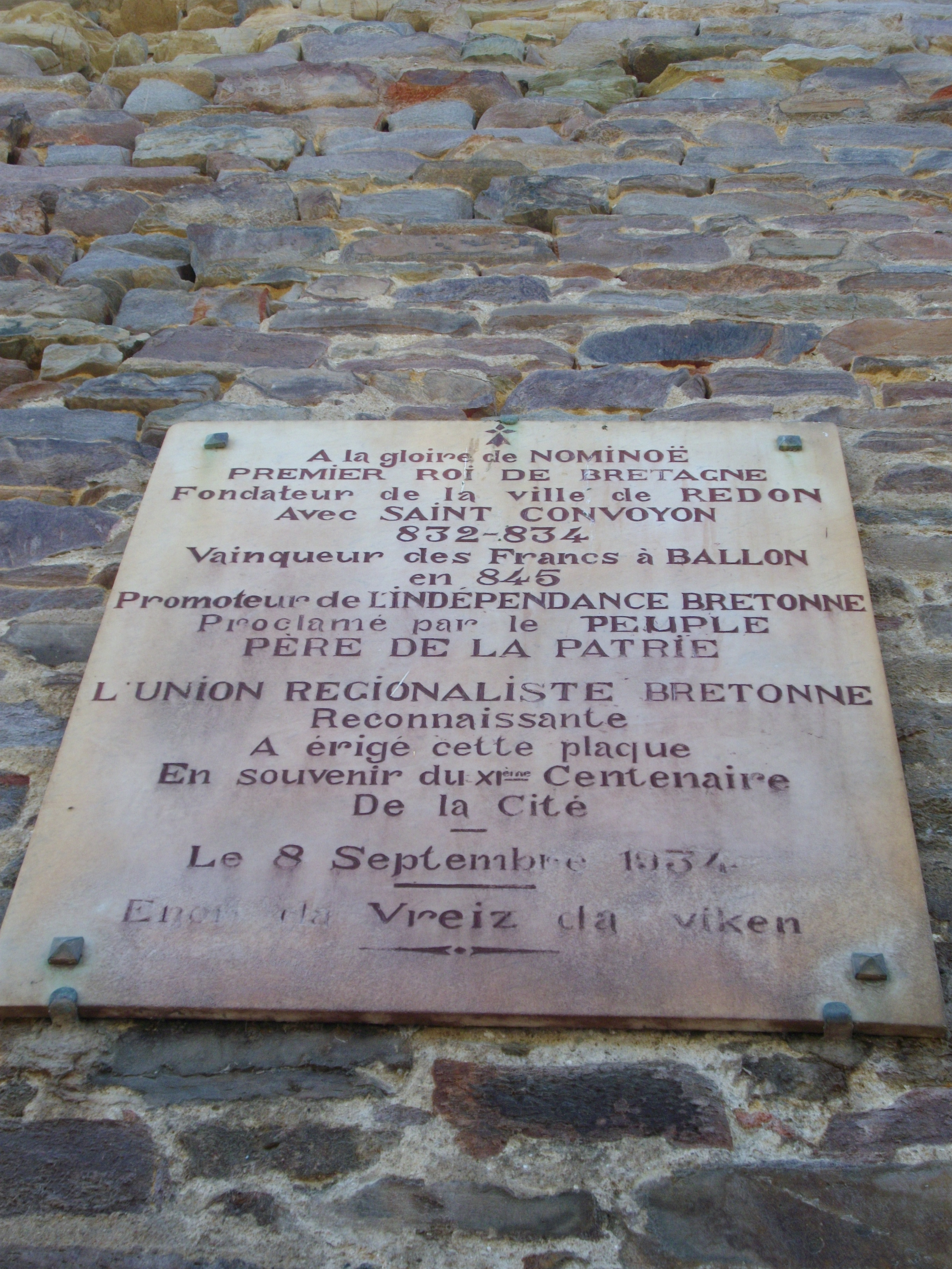 Ramparts of Redon (Ille-et-Vilaine, France) : 1934 plaque in honor of Nominoë